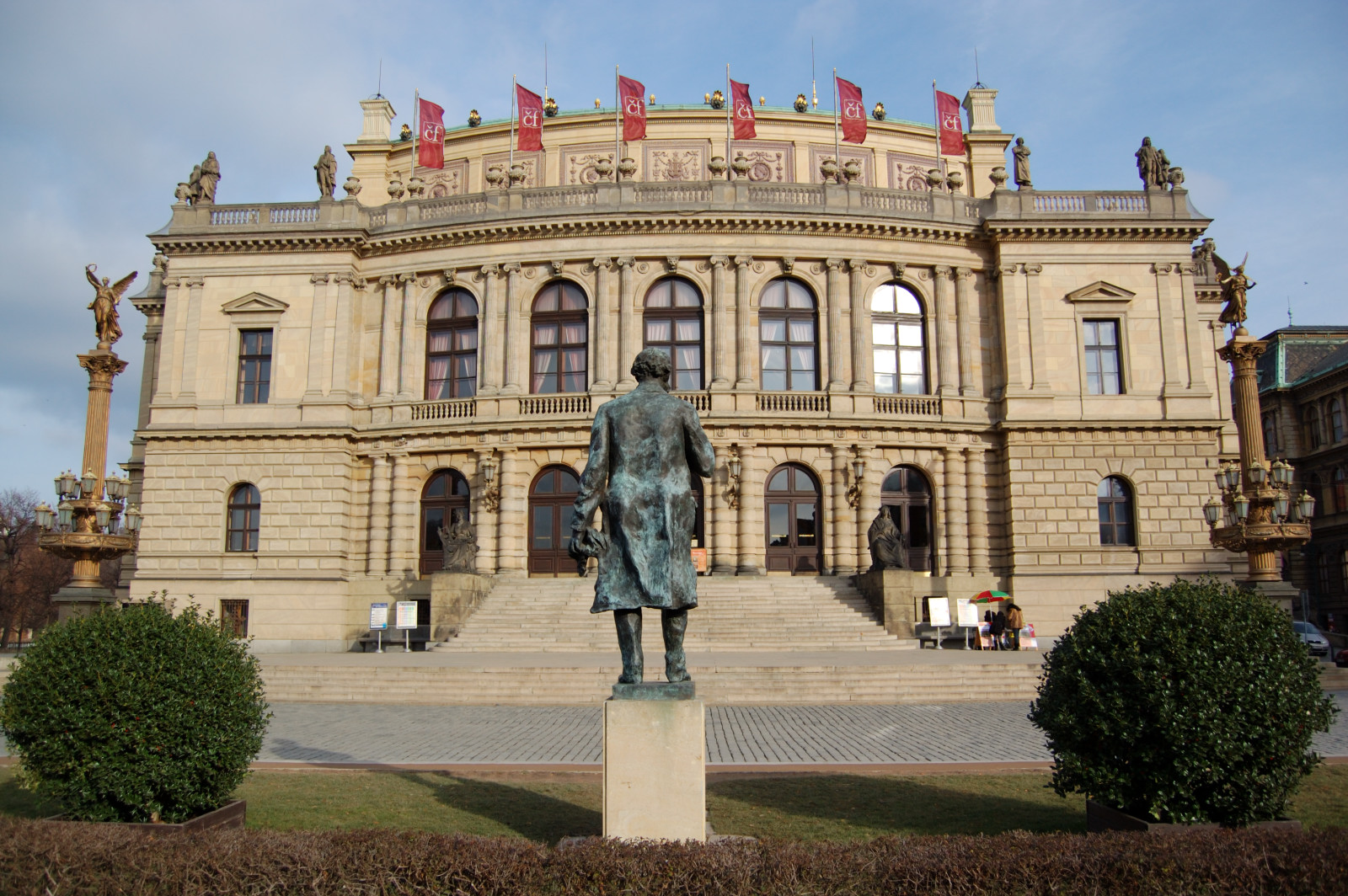 This is my photo of the Rudolfinum.